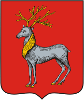 Rostov (Yaroslavl oblast), coat of arms (1778)